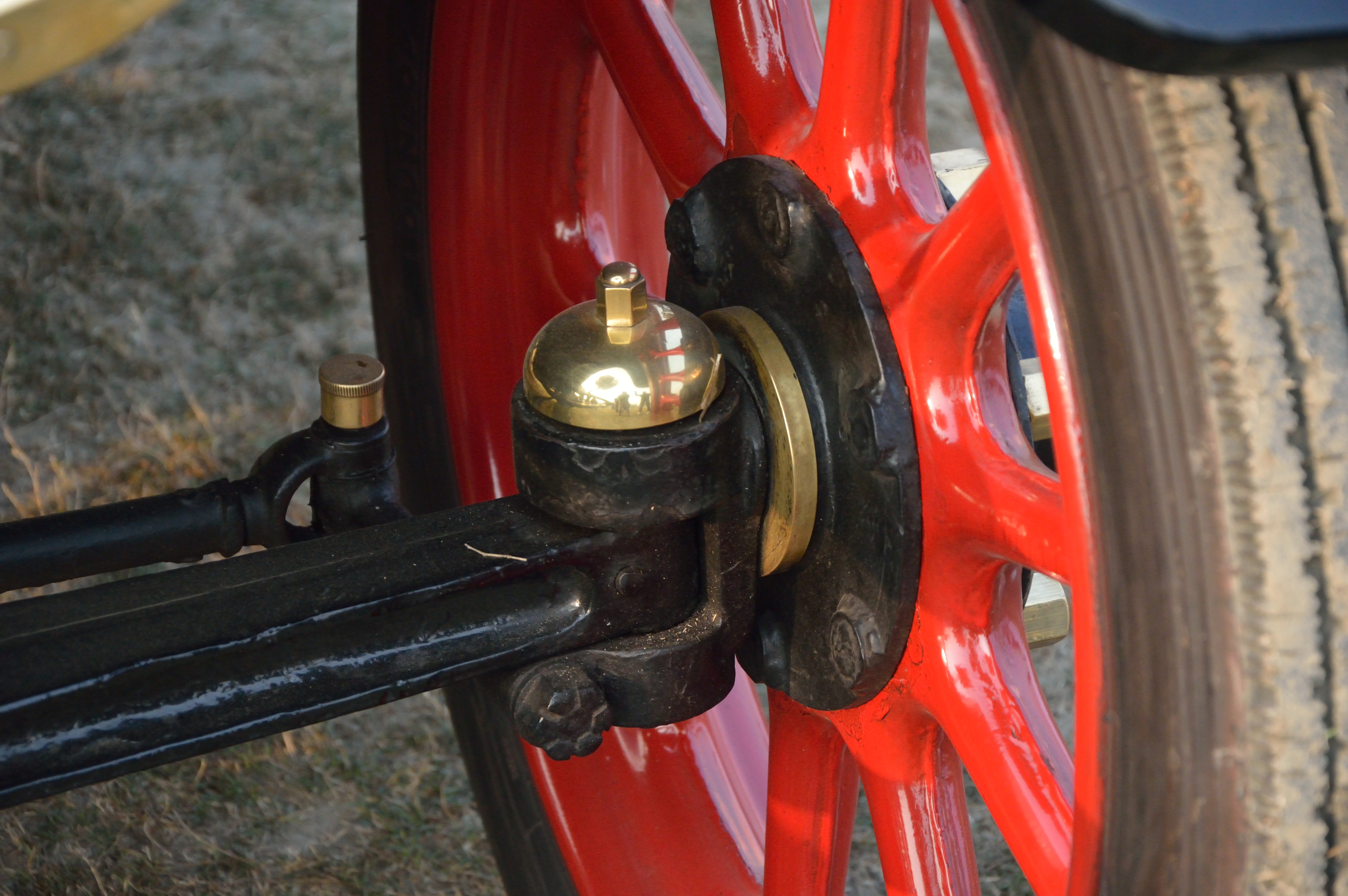 This car was exhibited and took part during ‘The Statesman Vintage & Classic Car Rally 2014’at the Eastern Command Sports Stadium of Fort William, Kolkata. The route was Strand road, Esplanade, Central avenue, Bhupen Bose avenue, Shaymbazaar five points crossing, APC Roy road, Moulali, CIT road, National Medical College, Park Circus seven points, Syed Amir Ali Avenue, Gariahat, Rashbehari Avenue, SP Mukherjee road, Hazra crossing, Ashutosh Mukherjee road, Exide crossing, AJC Bose road again Strand road and back to the ECS stadium. The rally was held at the morning on Sunday, 19 January 2013 at the ECS Stadium, where 175 entrants were registered with cars and bikes manufactured from 1906 to 1971. This one day festival usually takes place on the second Sunday of every January (but this time it is observed on third Sunday) in Kolkata since 1968 with full of period costume and cultural period pieces. This car is owned by Pramod Kumar Mittal and driven by Kanhaiya Prasad.